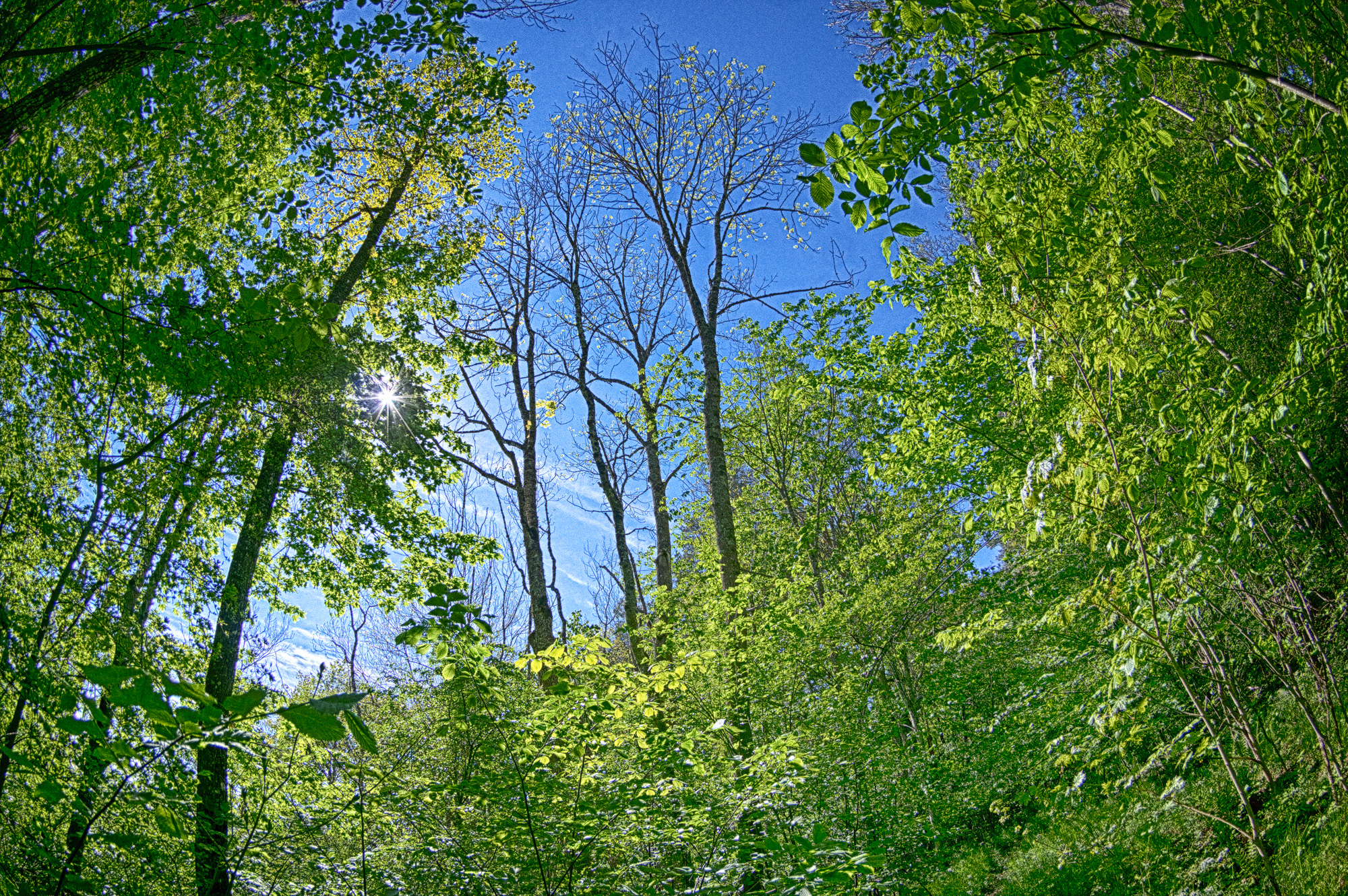 Ash trees flower in late spring